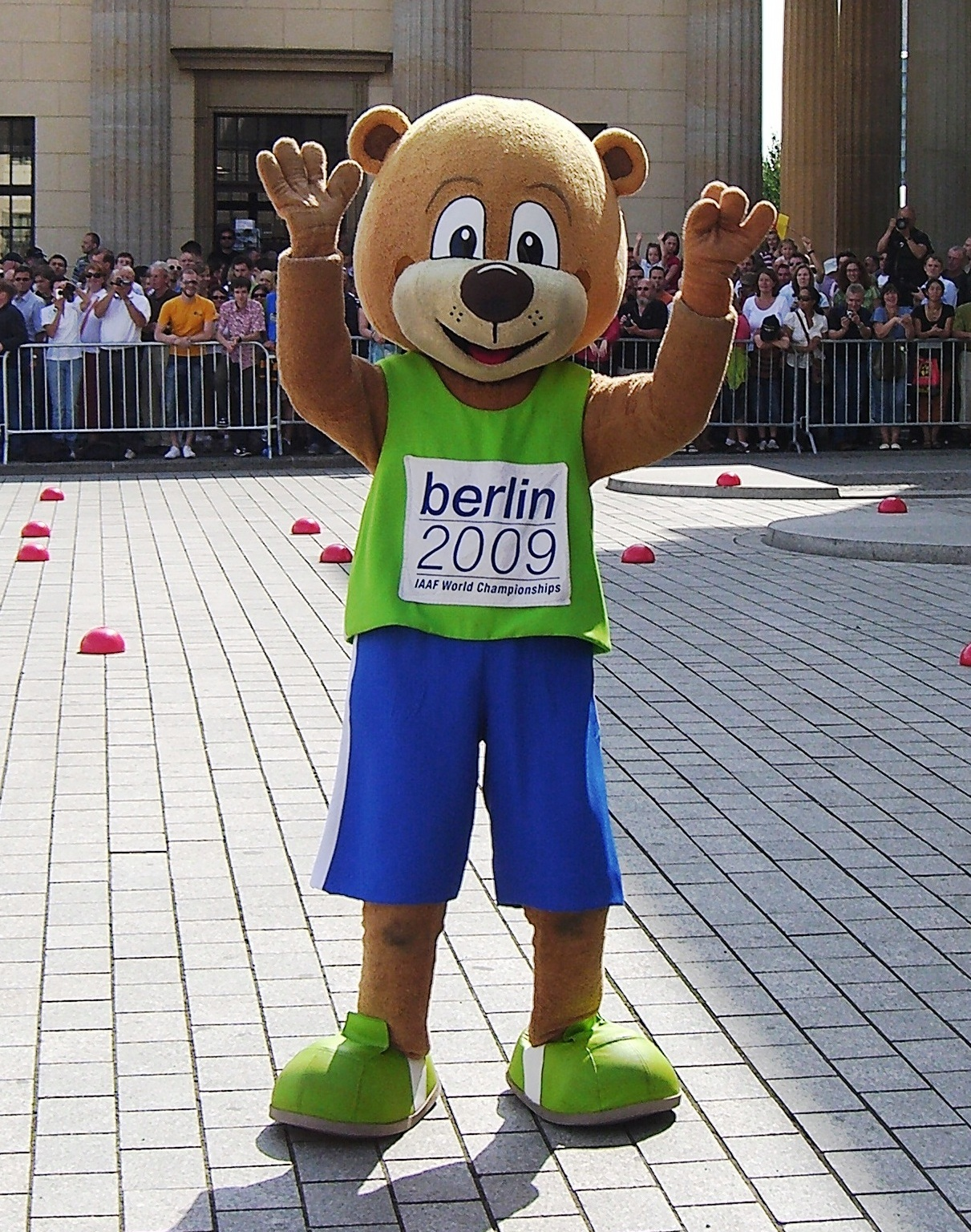 Mascot "Berlino" at the marathon during the 12th IAAF World Championships in Athletics 2009™ in Berlin.